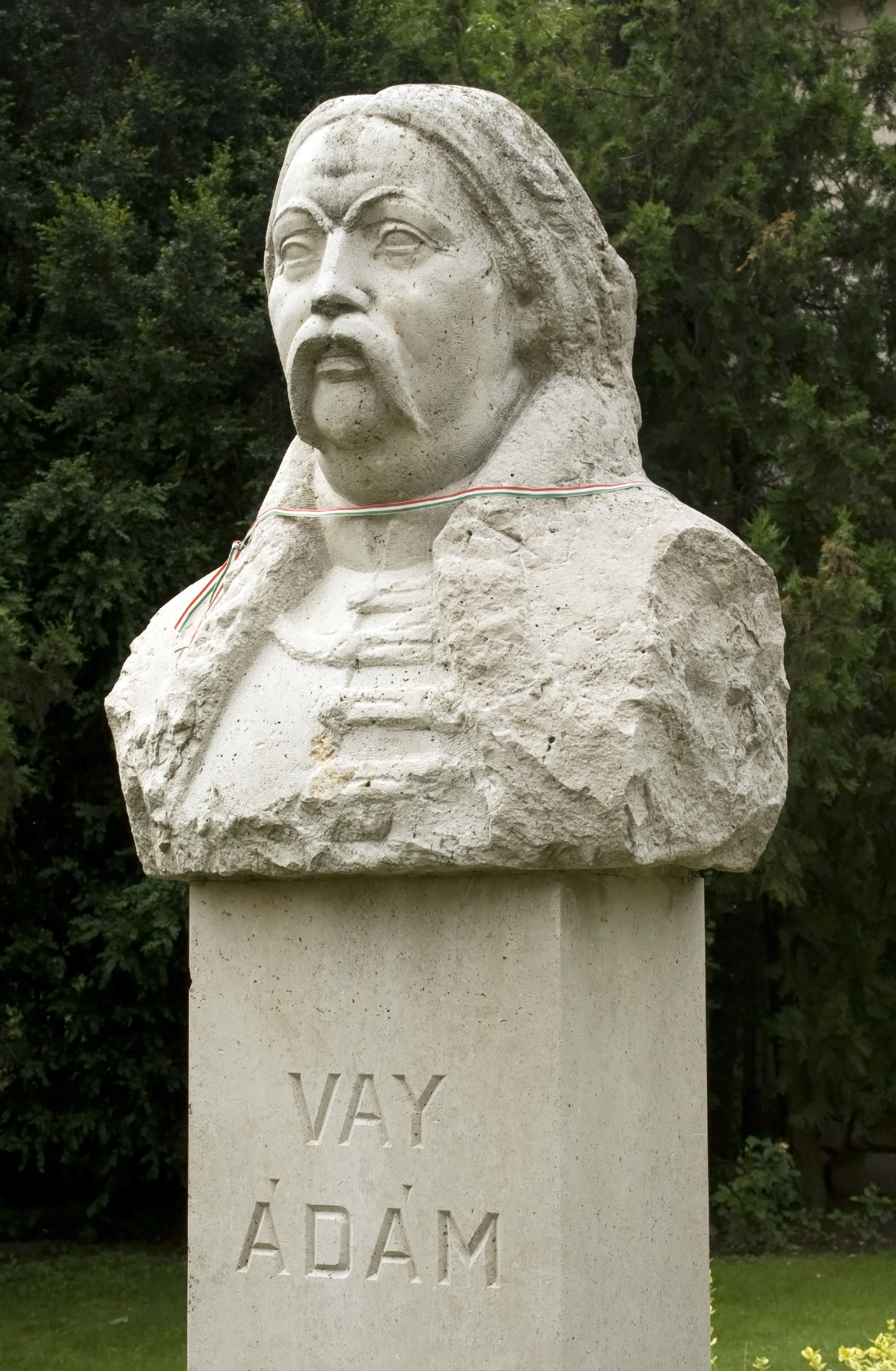 Bust of Ádám Vay in the park of the Vaja Castle, Hungary – László Márton, 1969